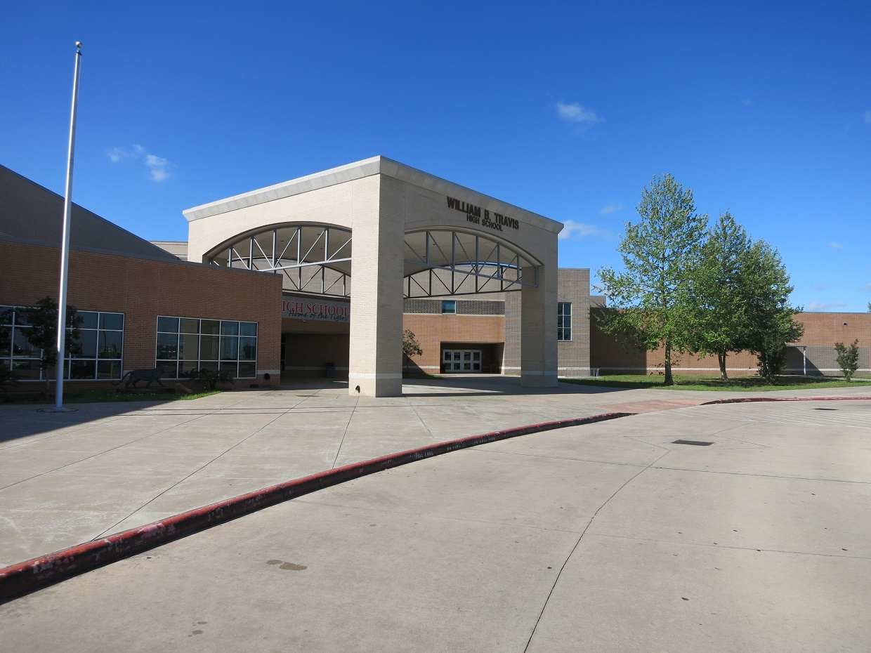 Photo shows William B. Travis High School at 11111 Harlem Rd, Richmond, TX 77406. It is in Fort Bend County Independent School District. View is to the SW.